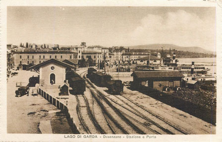 Desenzano Lago railway station in 1920